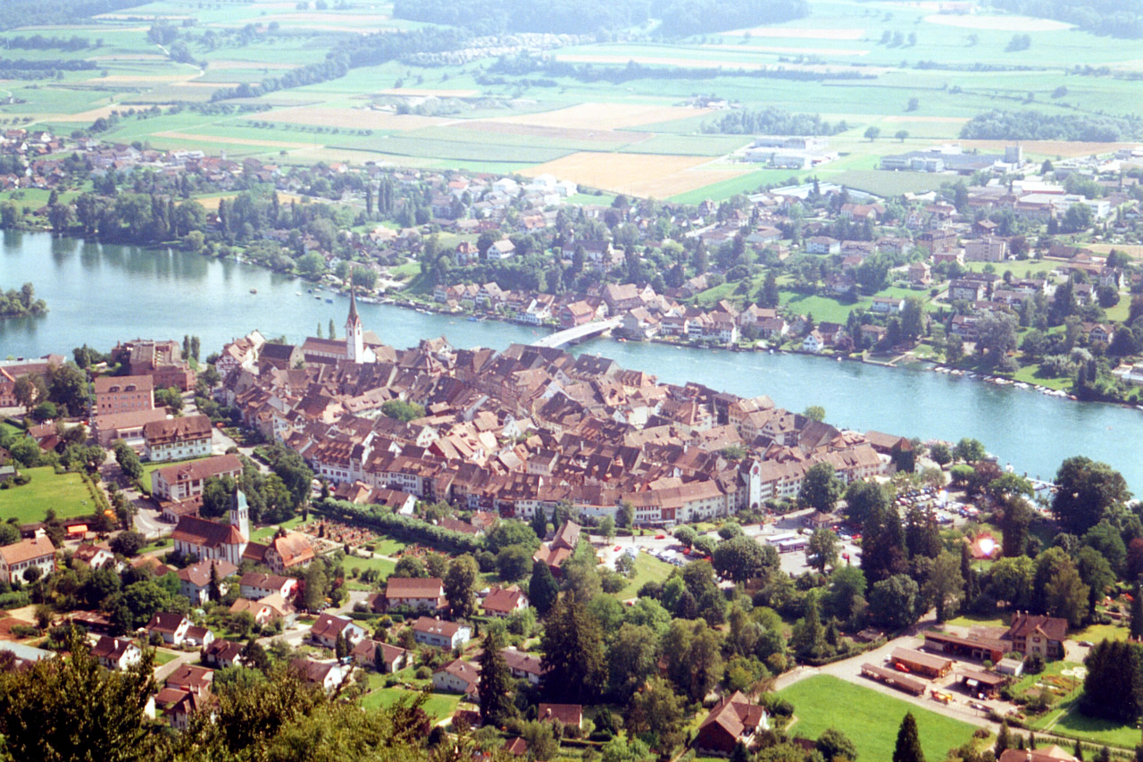 Stein am Rhein in the canton of Schaffhausen, Switzerland, seen from the castle Hohenklingen